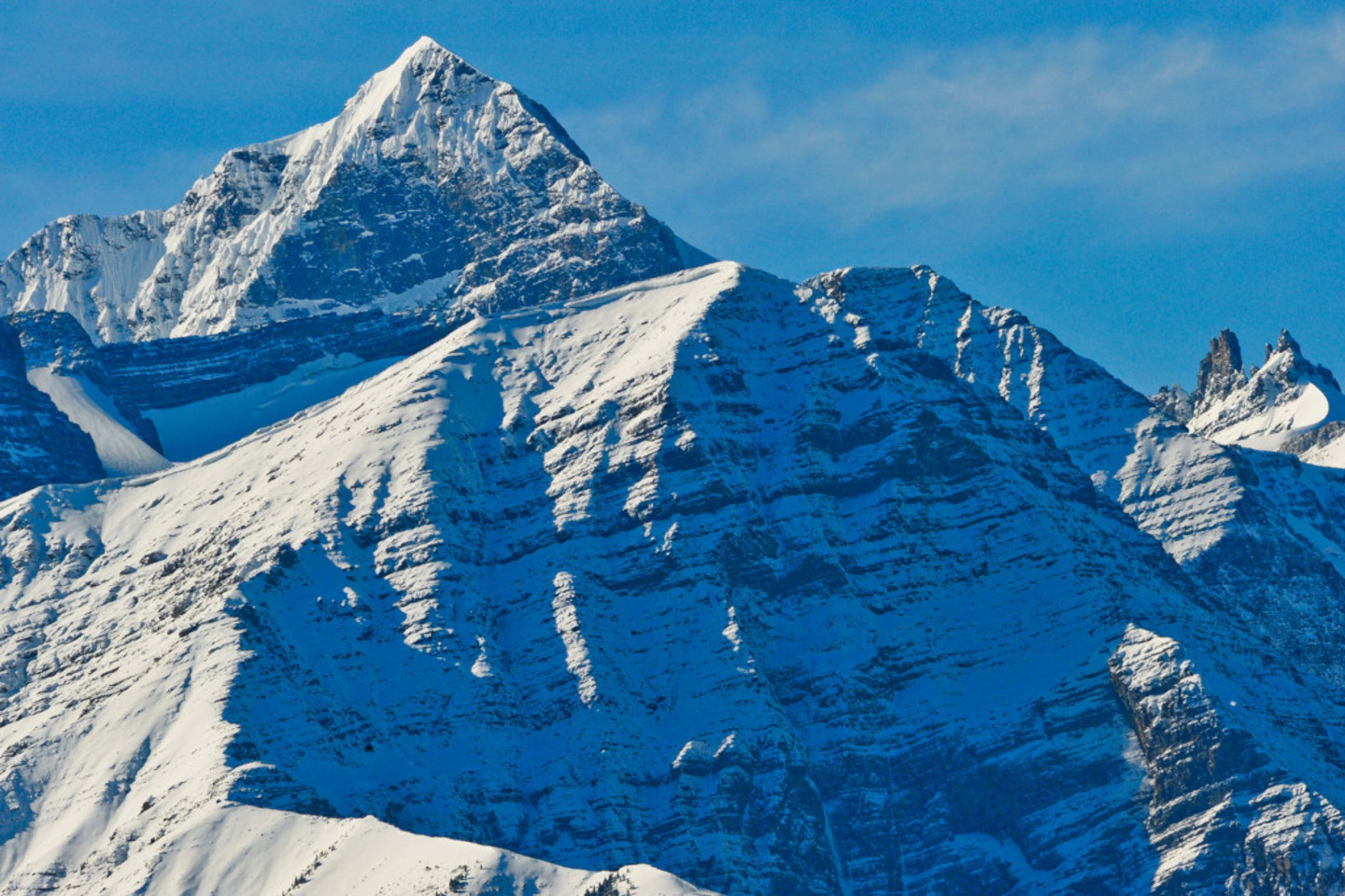 Mt. Forbes Summit from the Icefields Parkway at Saskatchewan River Crossing on a good, clear day. Only the summit at the top of the image and the aiguille at right centre are part of Mt. Forbes, but at least it's sometimes visible from the highway (weather permitting).